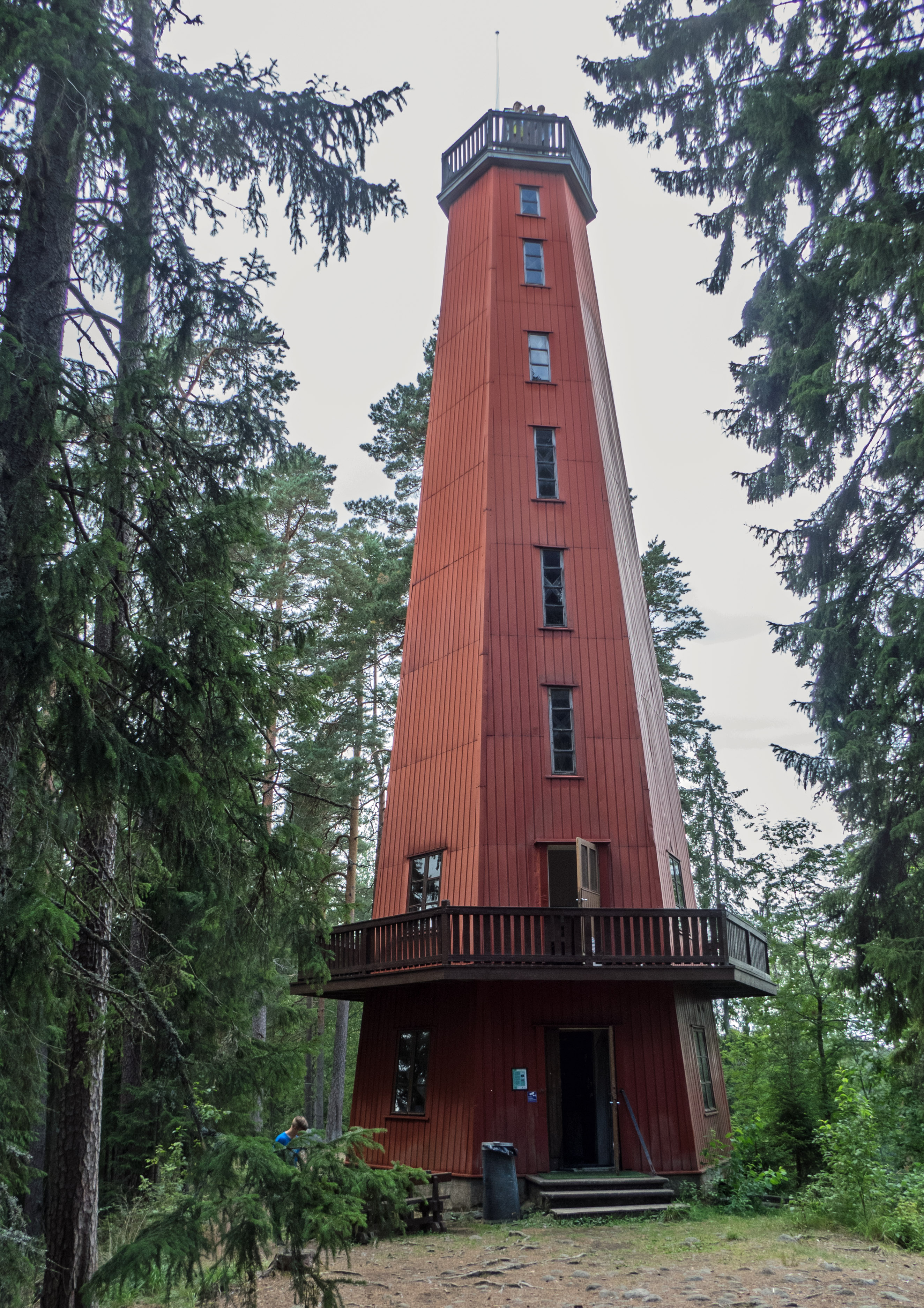 Observation tower from 1926 on top of Kaukolanharju in Tammela, Finland.